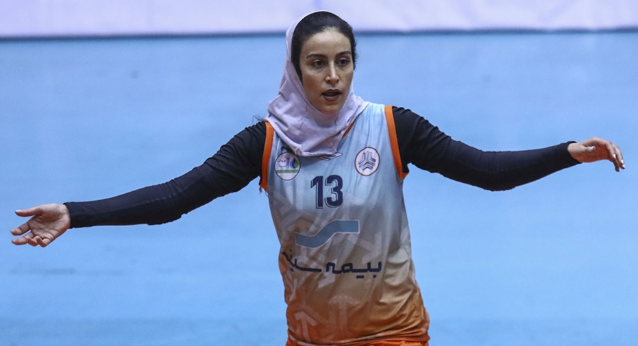 Iranian women volleyball league 2019. First week of the second round